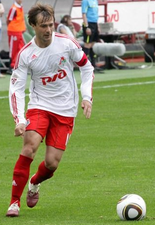 Dmitry Sychev in action for FC Lokomotiv Moscow